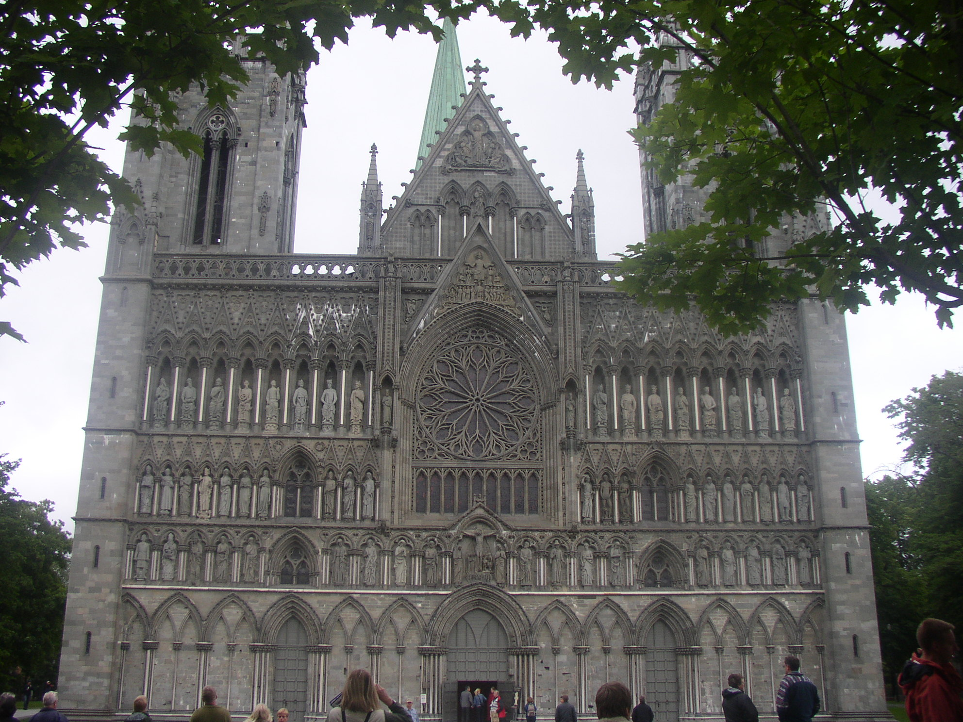 Nidaros Cathedral, Trondheim, Norway